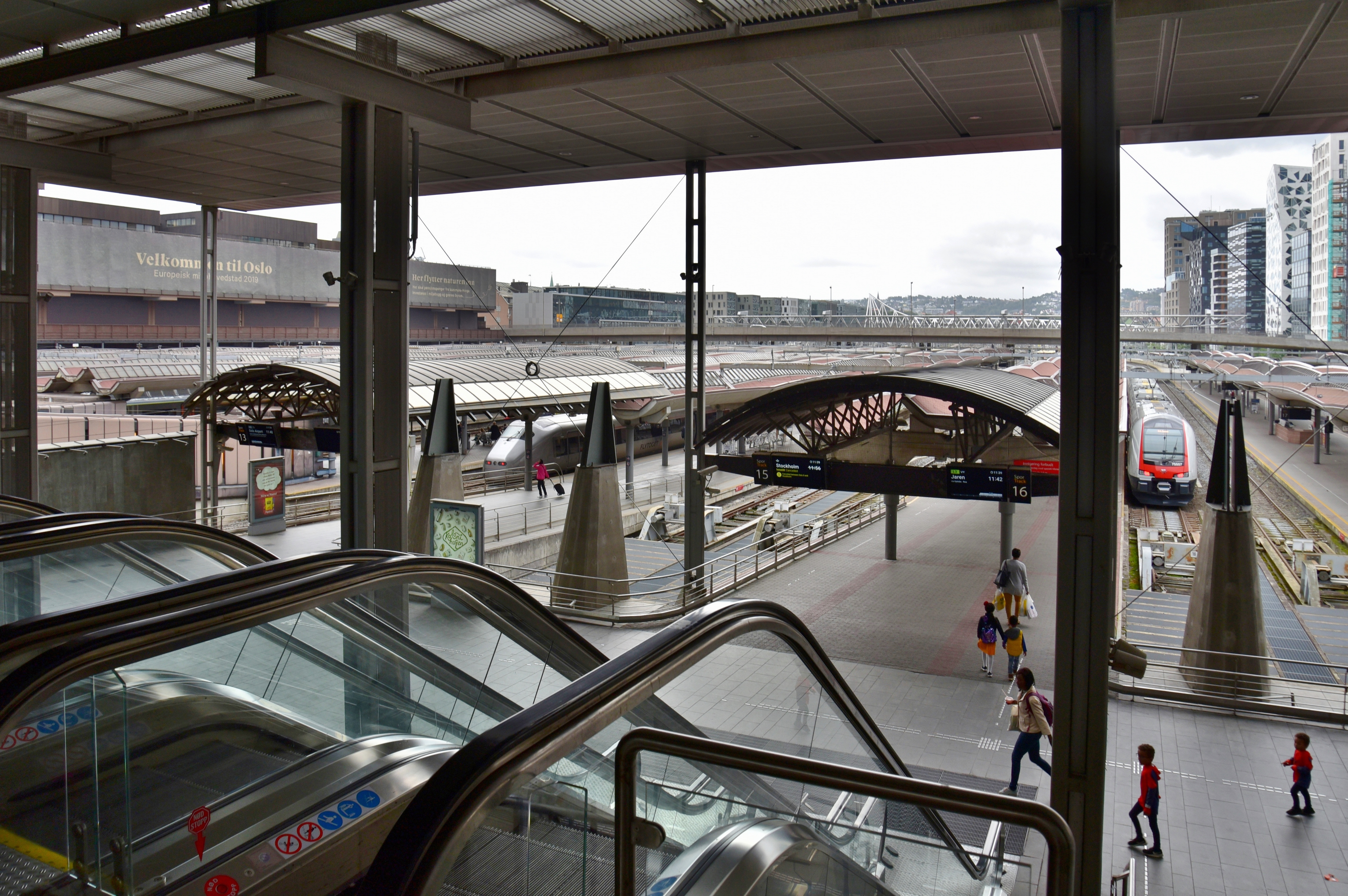 Interior view of Oslo Central Station looking out towards the platforms